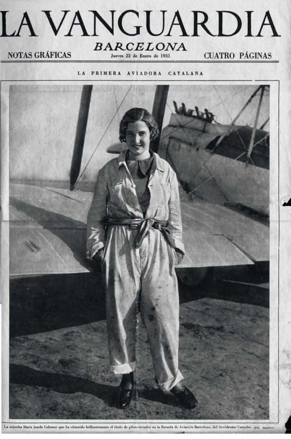 Mari Pepa Colomer standing in front of plane as depicted on the cover of La Vanguardia newspaper. Plain text is seen describing the image, with the text-logo of the newspaper above.